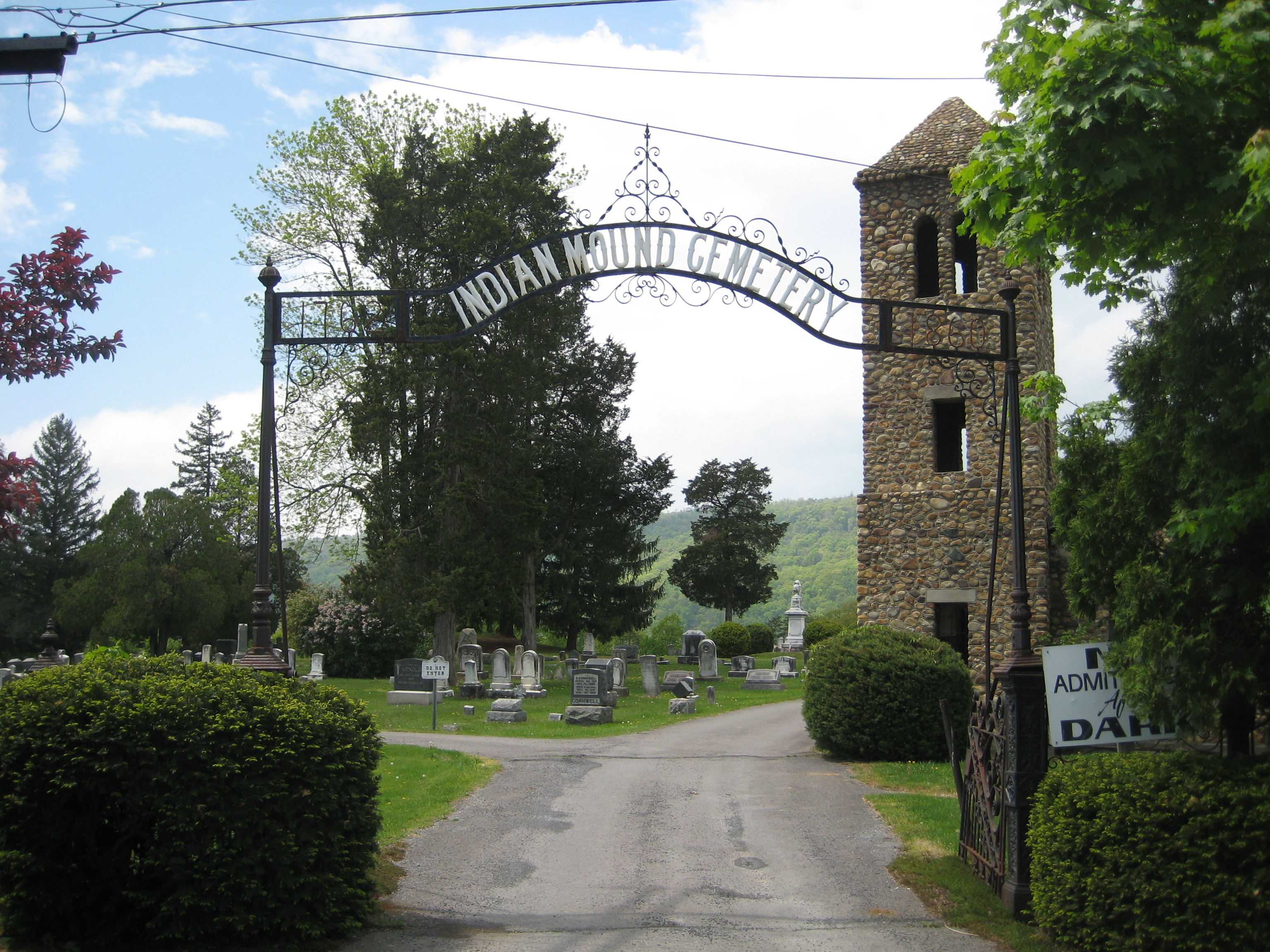 Entrance gate to Indian Mound Cemetery along West Main Street (U.S. Route 50) in Romney, West Virginia, United States.